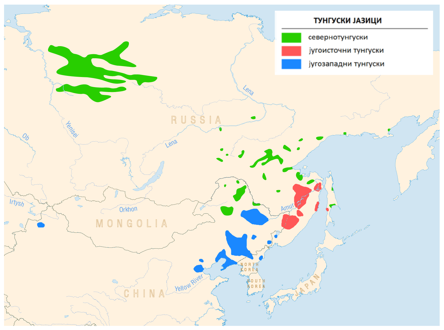 Linguistic maps of the Tungusic languages in Macedonian.